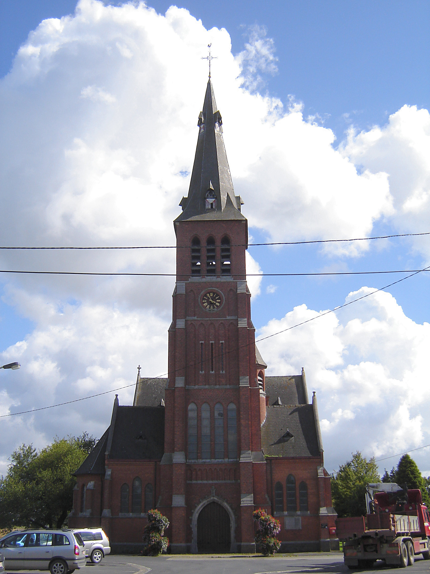 Church of Saint Engelbert in Prosperpolder. Prosperpolder, Kieldrecht, Beveren, East Flanders, Belgium